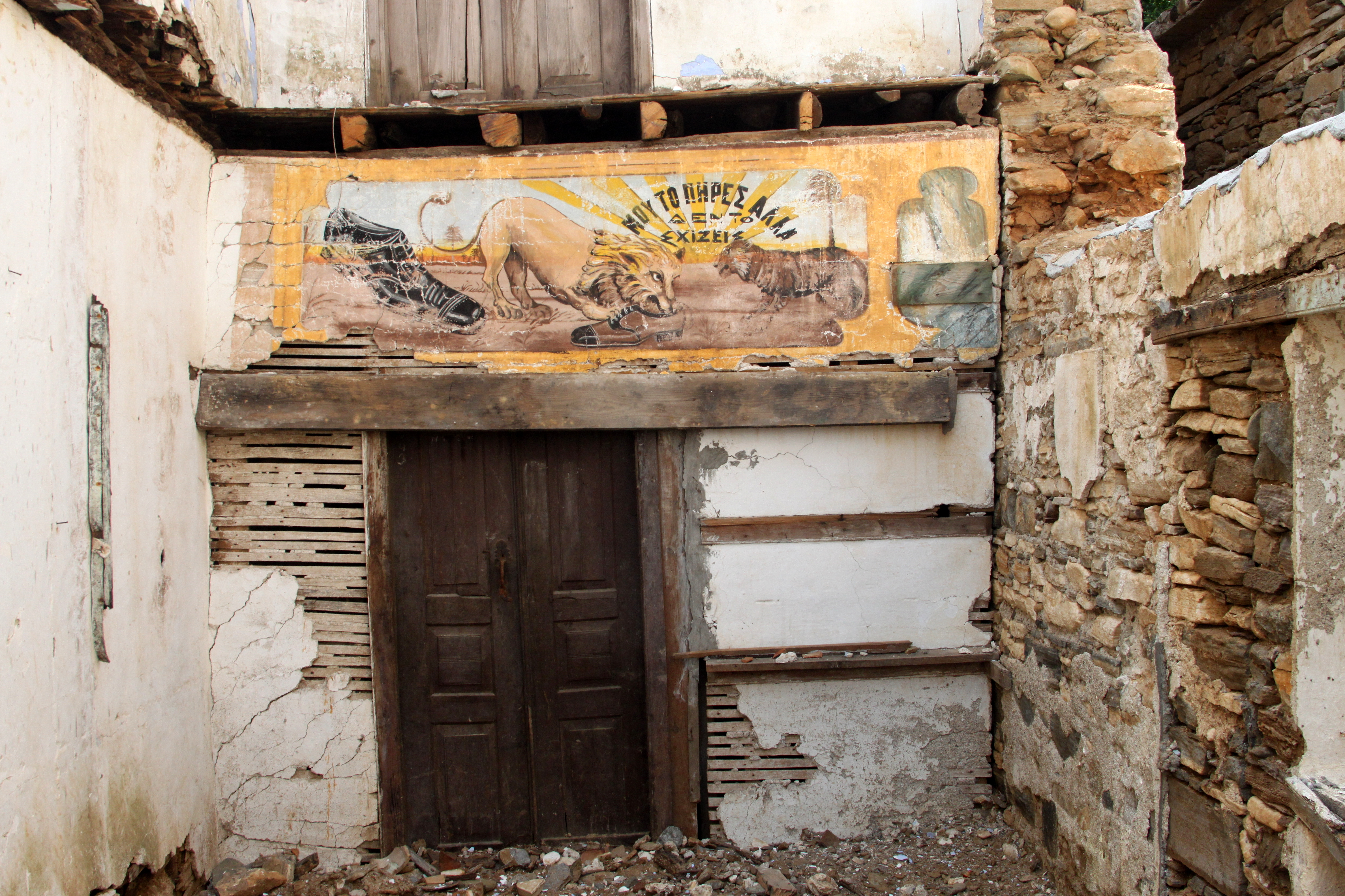 An old shoe store in Agios Konstantinos, Samos, Greece